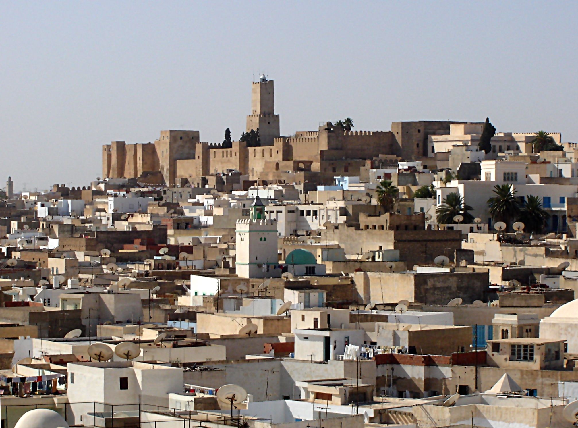 View von the Ribat tower over the Medina on the Kasbah, Sousse, Tunisia.